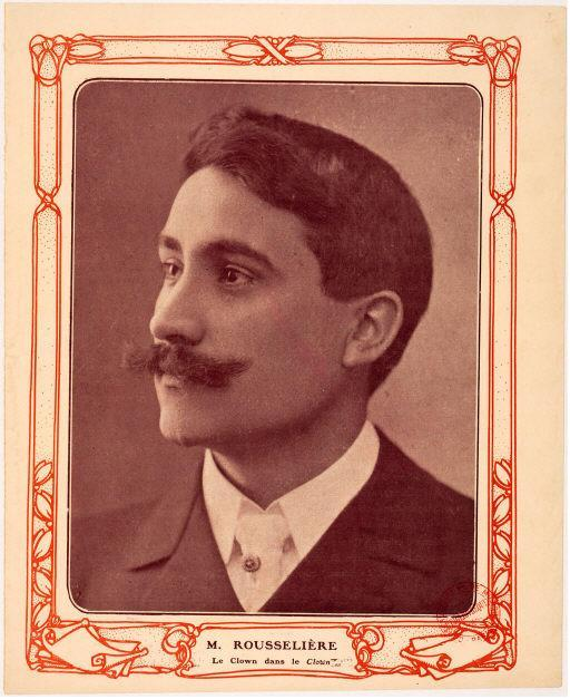 Portrait of French tenor Charles Rousselière in the title role of the opera Le Clown by Isaac de Camondo (1906).